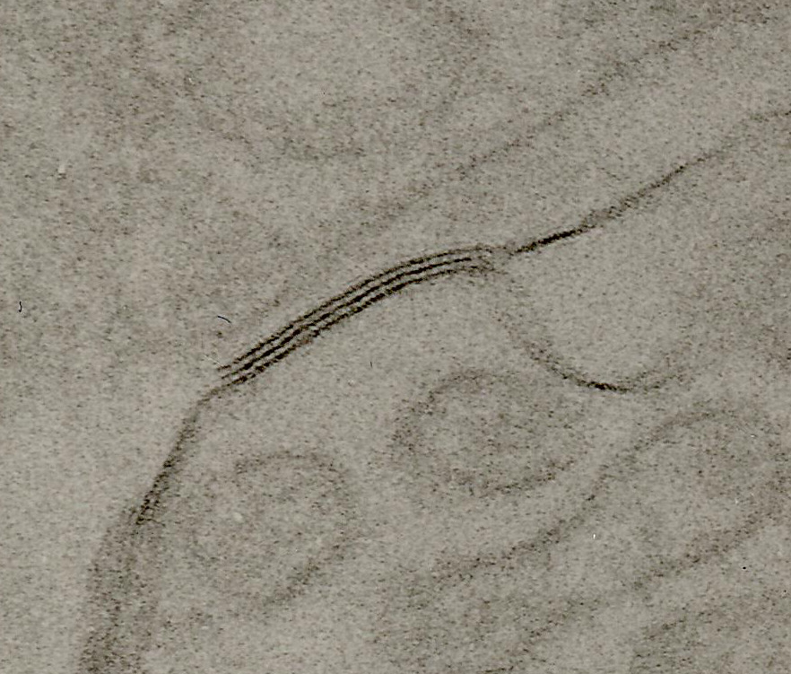 Transmission Electron Micrograph of negatively stained Proximal convoluted tubule of Rat Kidney tissue at a magnification of ~55,000x and 80KV. This is a close-up of the Zonula occludens (Tight junction) out of a larger image of a Kidney Tissue with Tight junction. Micrograph taken by Eric Yale Hayden: December, 2002.